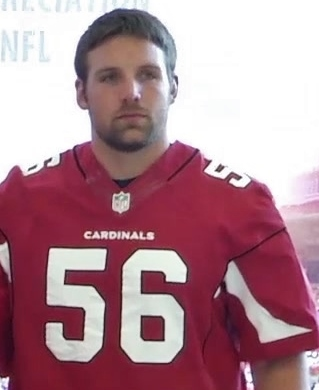 Arizona Cardinals linebacker Glenn Carson visits Papago Park Military Reservation in 2014.